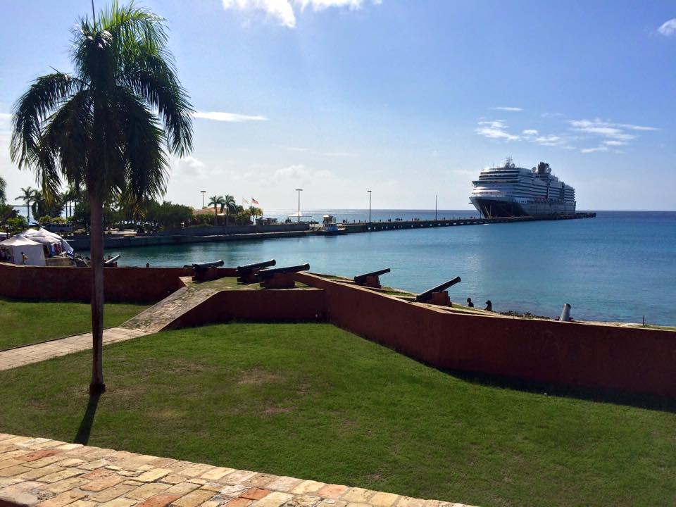 Fort Frederik, St. Croix, USVI -- SW view from seawall cannons